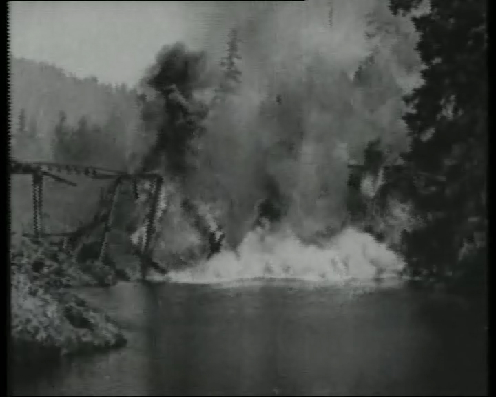 Scene from the movie The General. 1926.